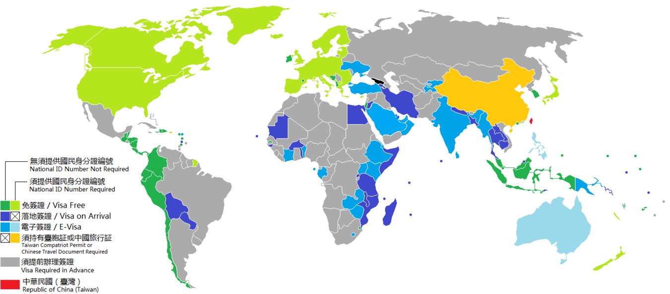 中文（台灣）: No any thing here.